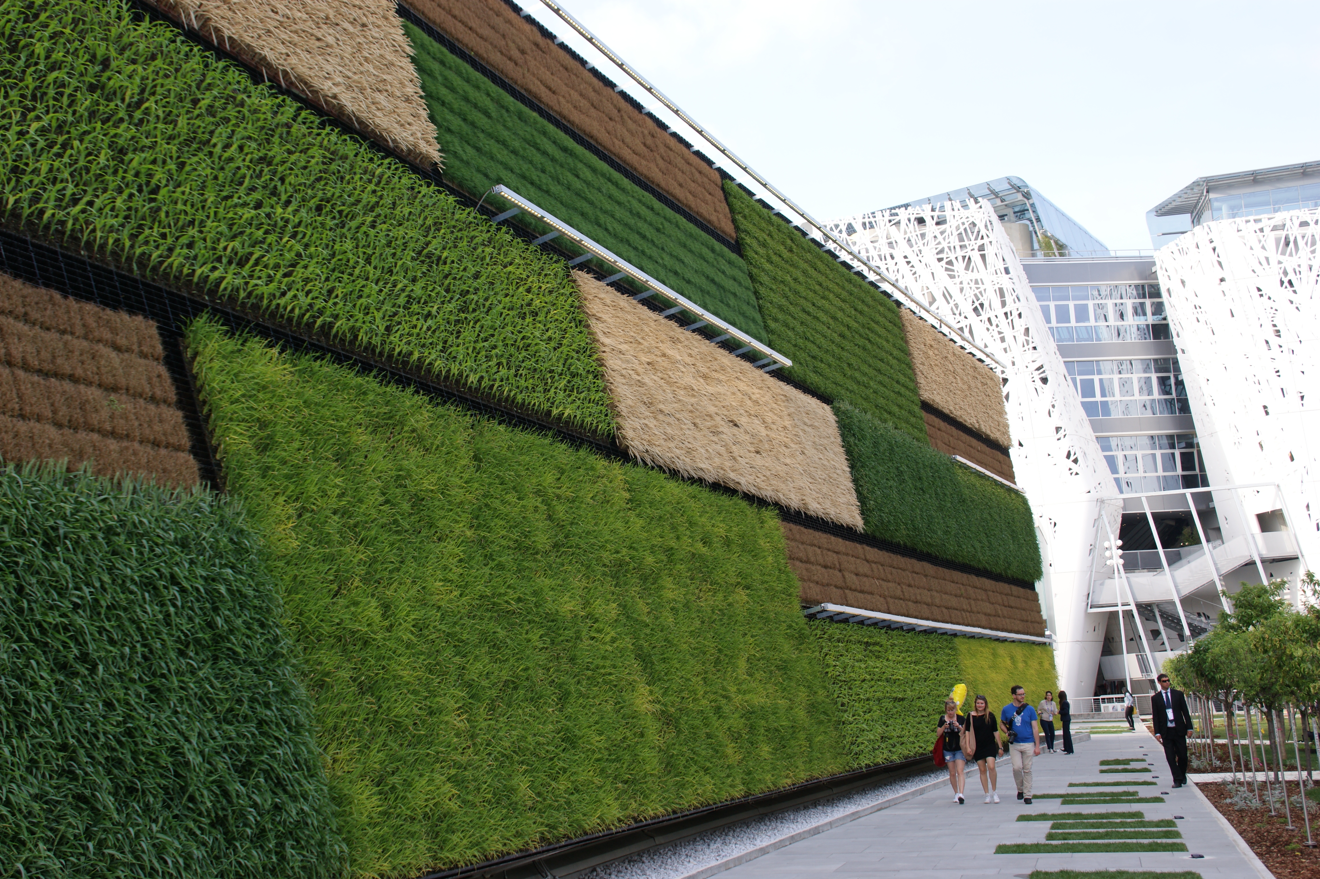 Israel Pavilion, Expo 2015, Milan, Italy.